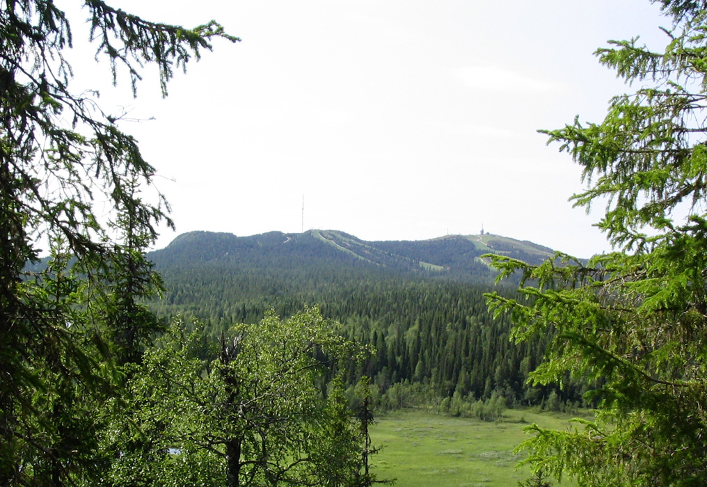 Ruka fell, Kuusamo, Finland, from southeast.